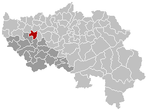 Map, municipality belgium Verlaine